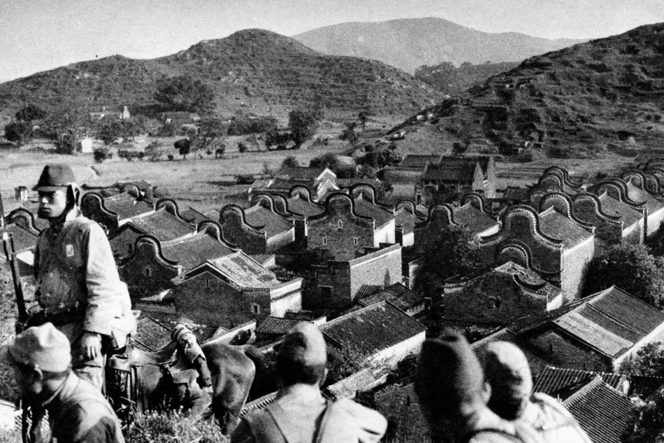 Soldiers of the IJA 18th division near Guangzhou, Guangdong province, China, October 1938